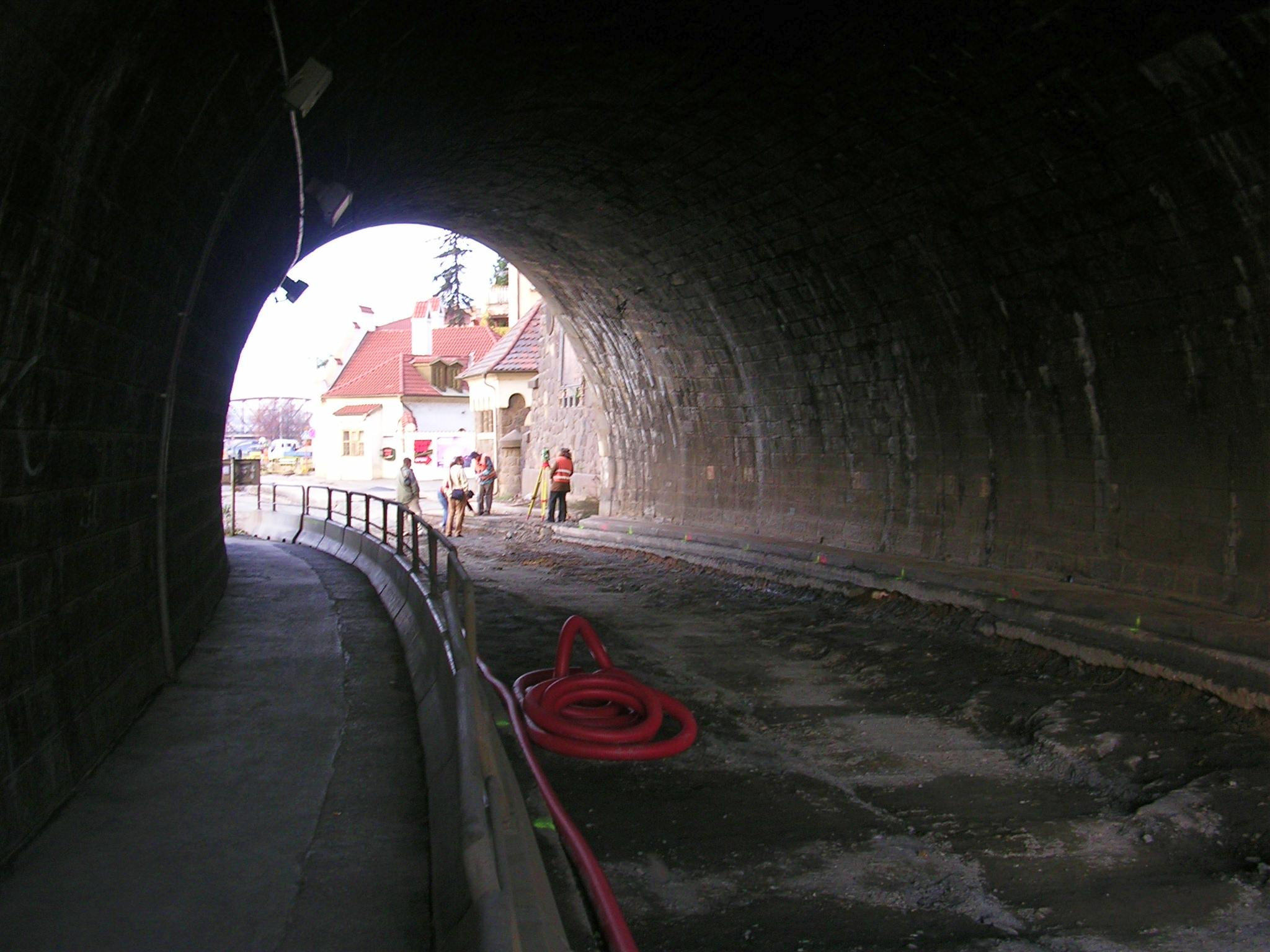 Vyšehrad, Prague. Reconstruction of tram track.